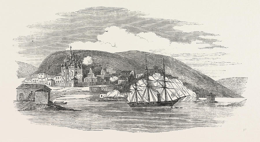 H.M.S. "Miranda" destroying the city of Kola, the capital of Russian Lapland.